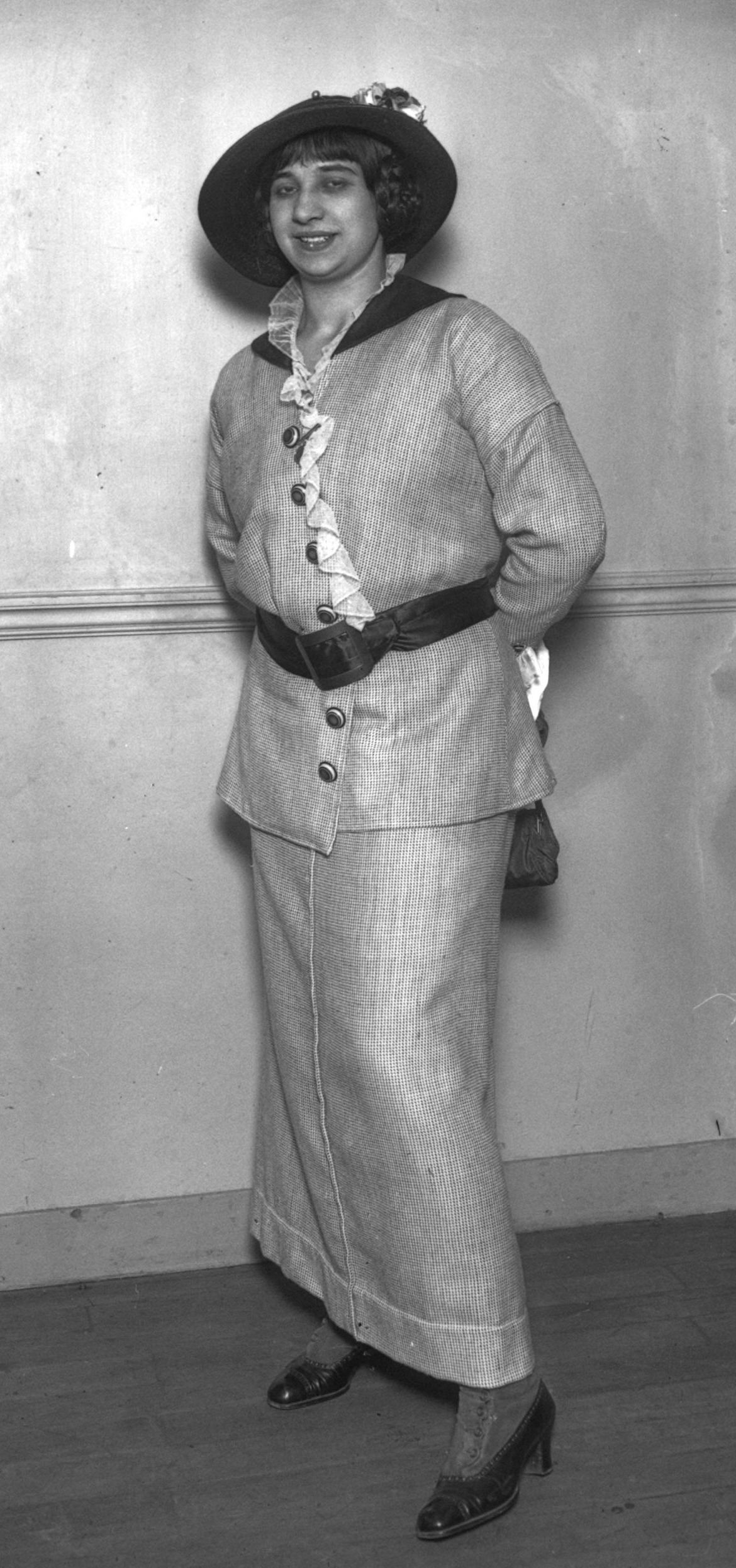 French athlete and spy Violette Morris (1893-1944)